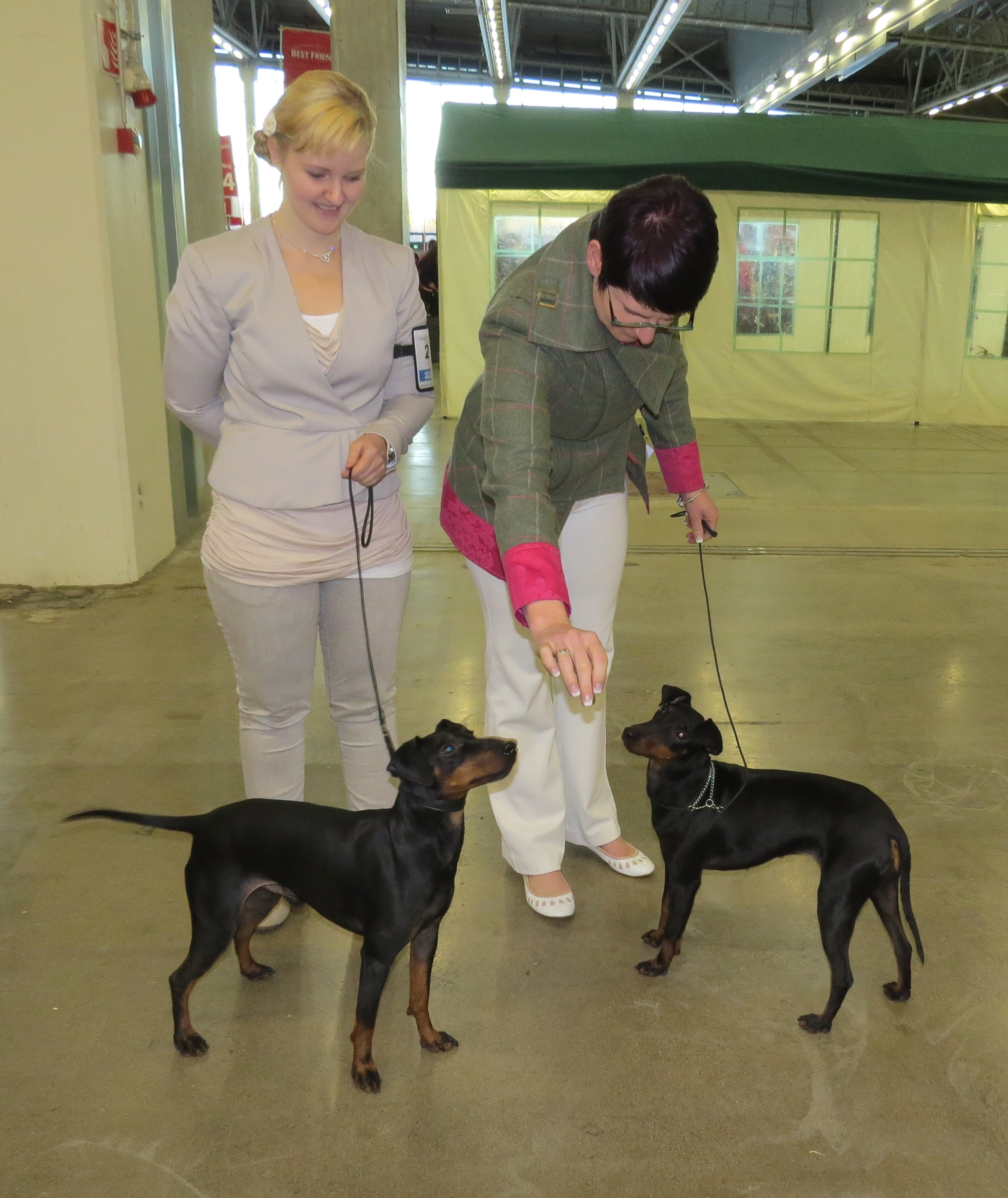 Koira 2013 Helsinki 13-15/12/2013